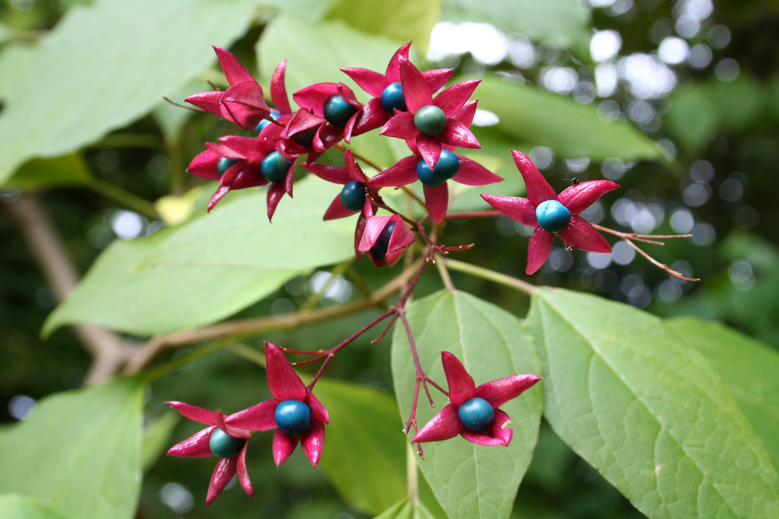 Harlequin glorybower Clerodendrum trichotomum leaves and fruits Position exacte : Parc de Mariemont (S21 - 1131) - Morlanwelz-Mariemont (Belgium). Walon: Fouyes èt fruts di l’ aube dès curès Clerodendrum trichotomum Place rècta: Parc di Mariémont (S21 - 1131) – Marlanwè-Mariémont (Bèljike).